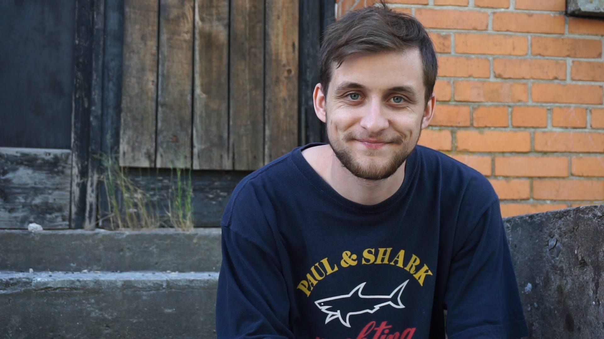 Kuusk in 2016